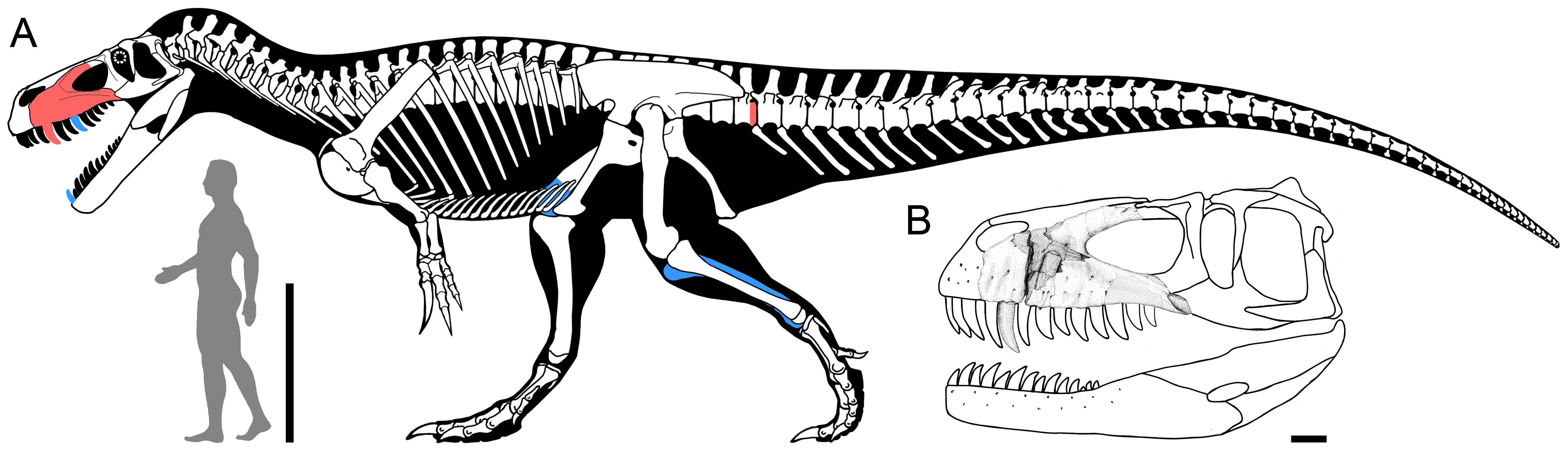 Reconstruction of Torvosaurus gurneyi in lateral view. A, Skeletal reconstruction of Torvosaurus gurneyi in lateral view illustrating, in red, the elements present in the holotype specimen (ML 1100) and, in blue, the elements tentatively assigned to this species (artwork by Scott Hartman, used with permission and modified; drawing of man by Carol Abraczinskas, University of Chicago, used with permission). B, Skull reconstruction of Torvosaurus gurneyi in lateral view illustrating the incomplete left maxilla(ML 1100) of the holotype specimen (artwork by Simão Mateus, used with permission and modified). Scale bars = 1 m (A) and 10 cm (B).